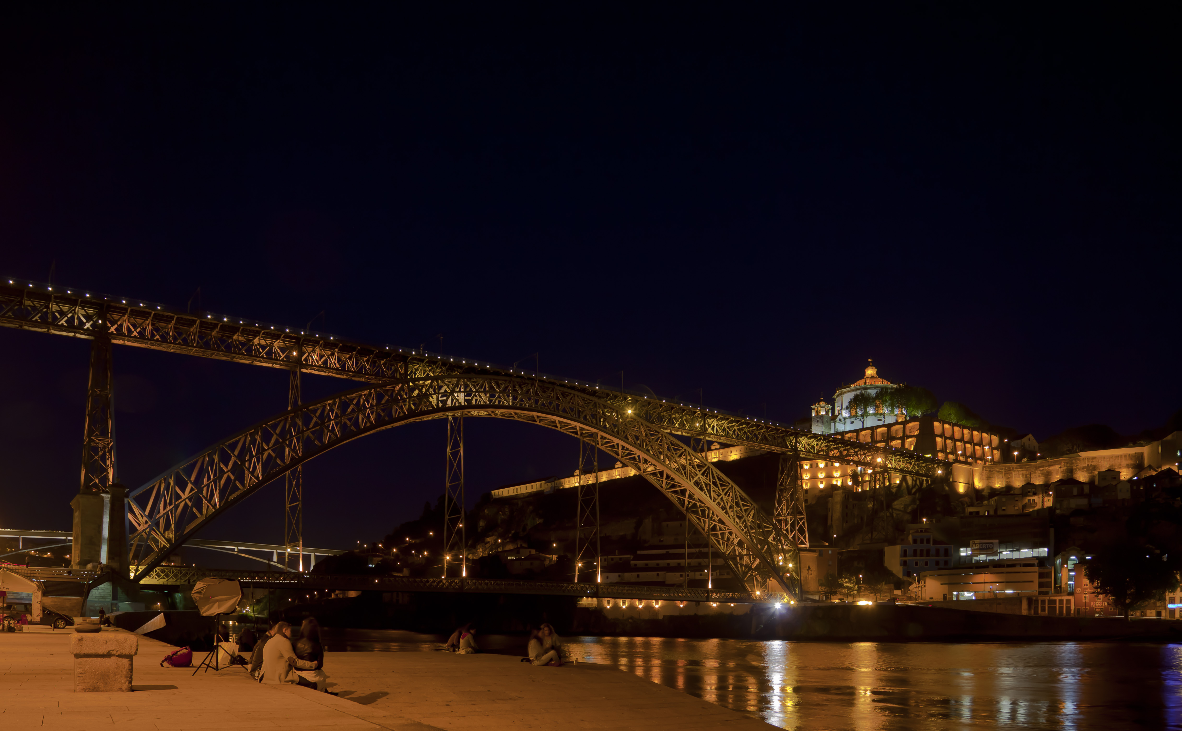 Serra do Pilar, Porto, Portugal